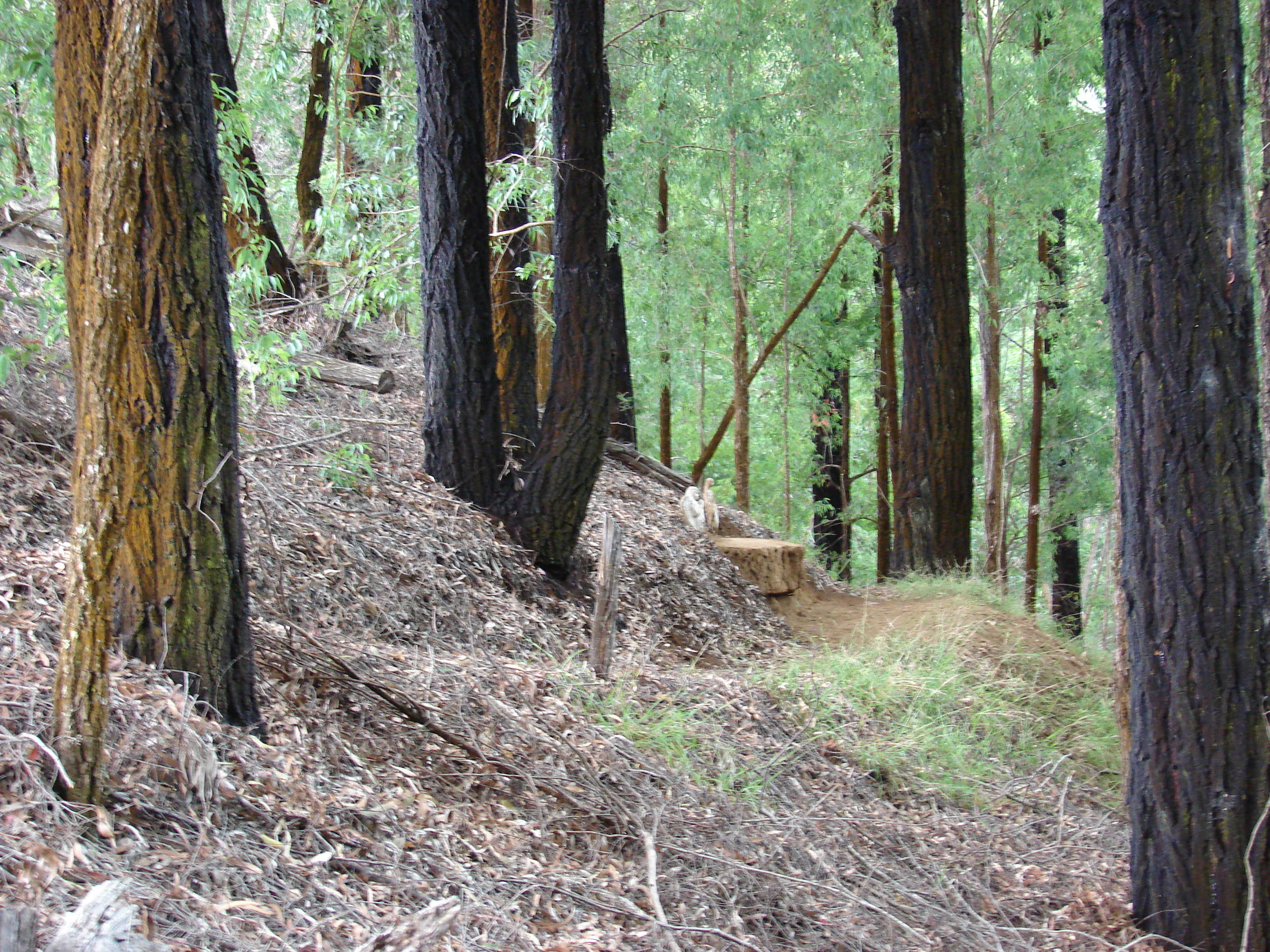 Eucalyptus sideroxylon (trail and bench). Location: Maui, Olinda